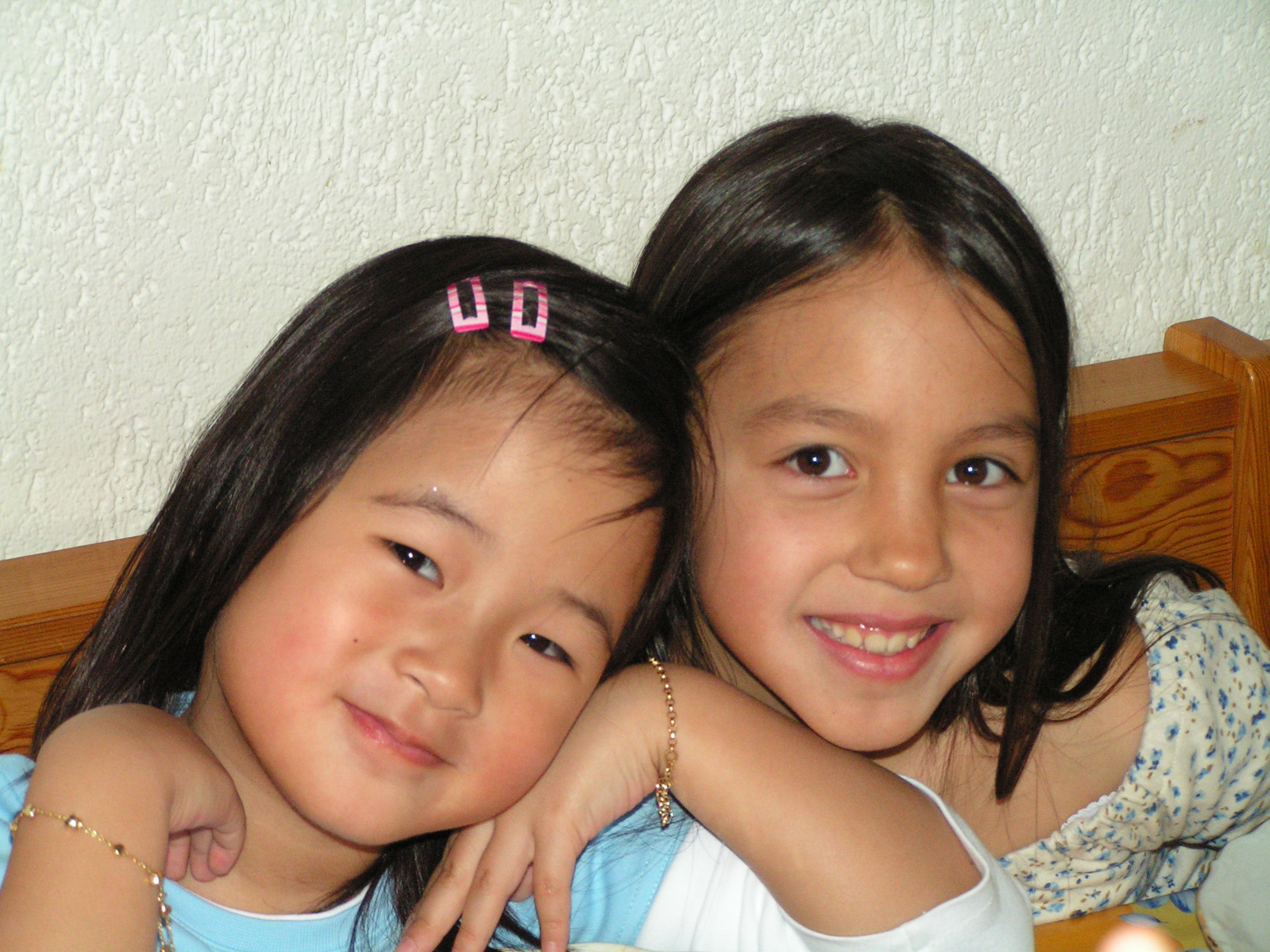 Friends.